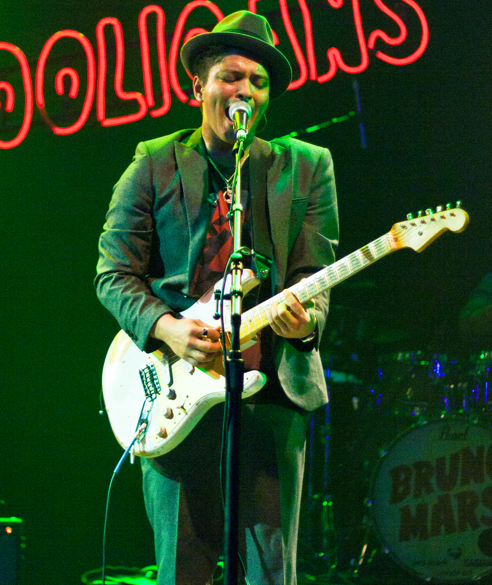 Bruno Mars performing in Houston, Texas on November 24, 2010 as part of the Doo-Wops and Hooligans tour